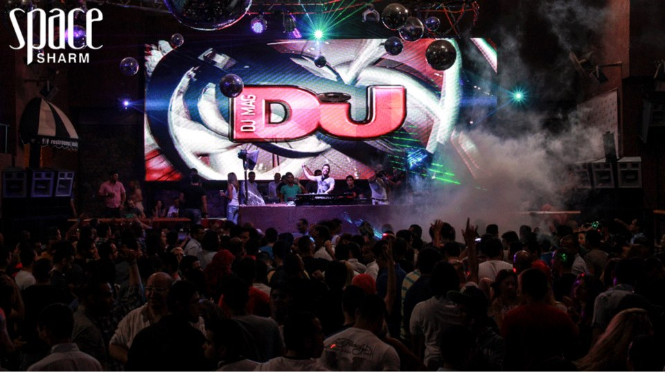 A photo taken at the DJ mag top 100 clubs tour at Space Sharm